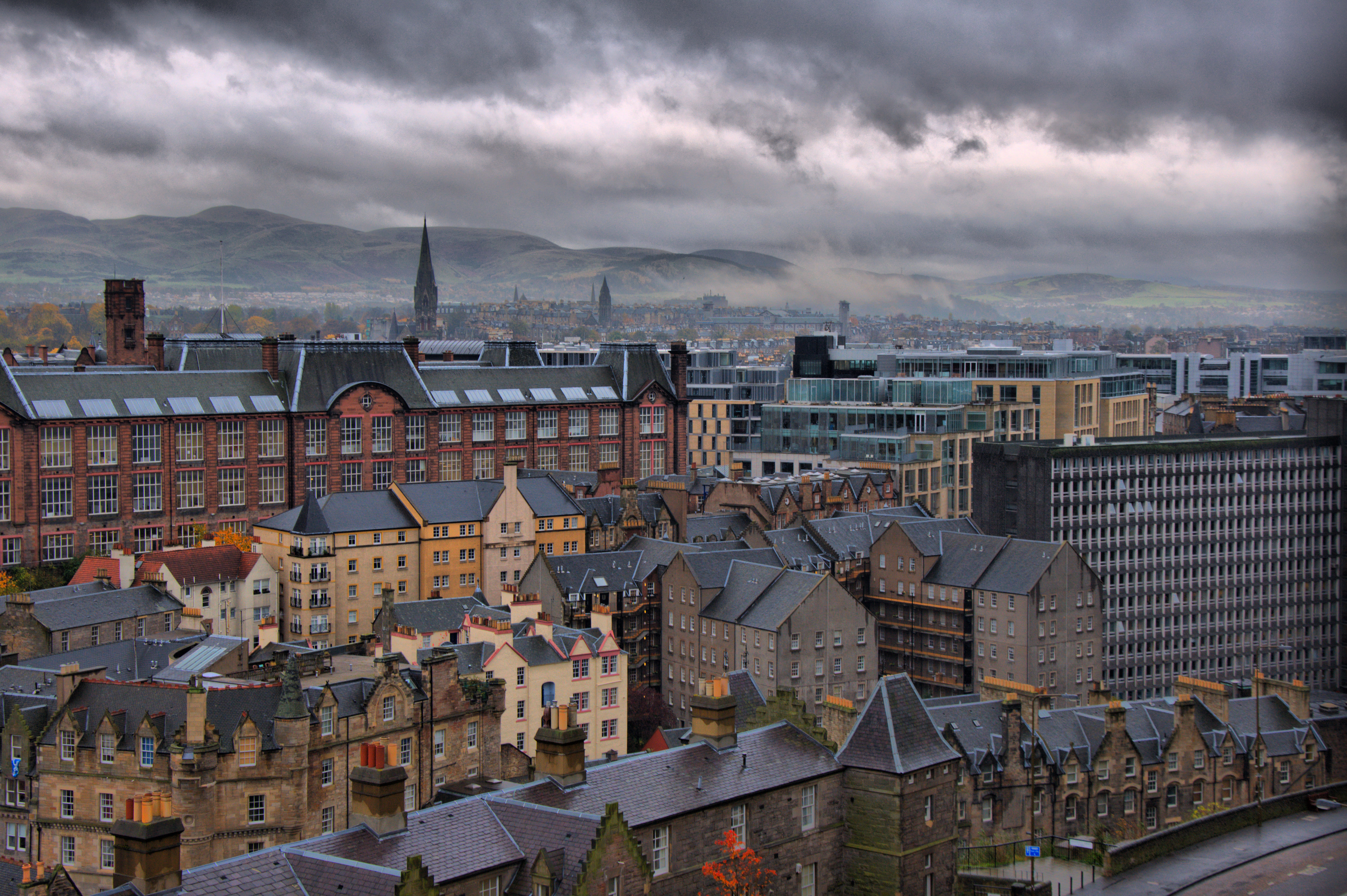 United Kingdom, Edinburgh